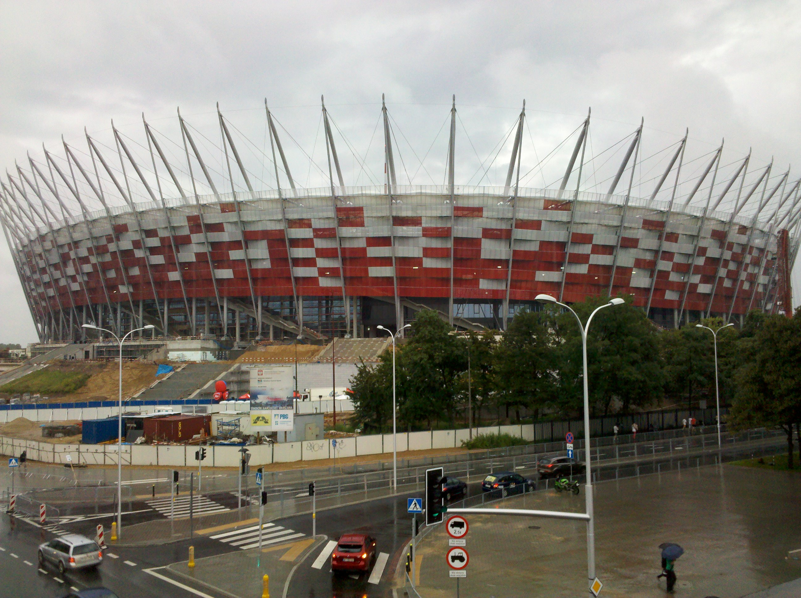 Construction site of the National Stadium in Warsaw